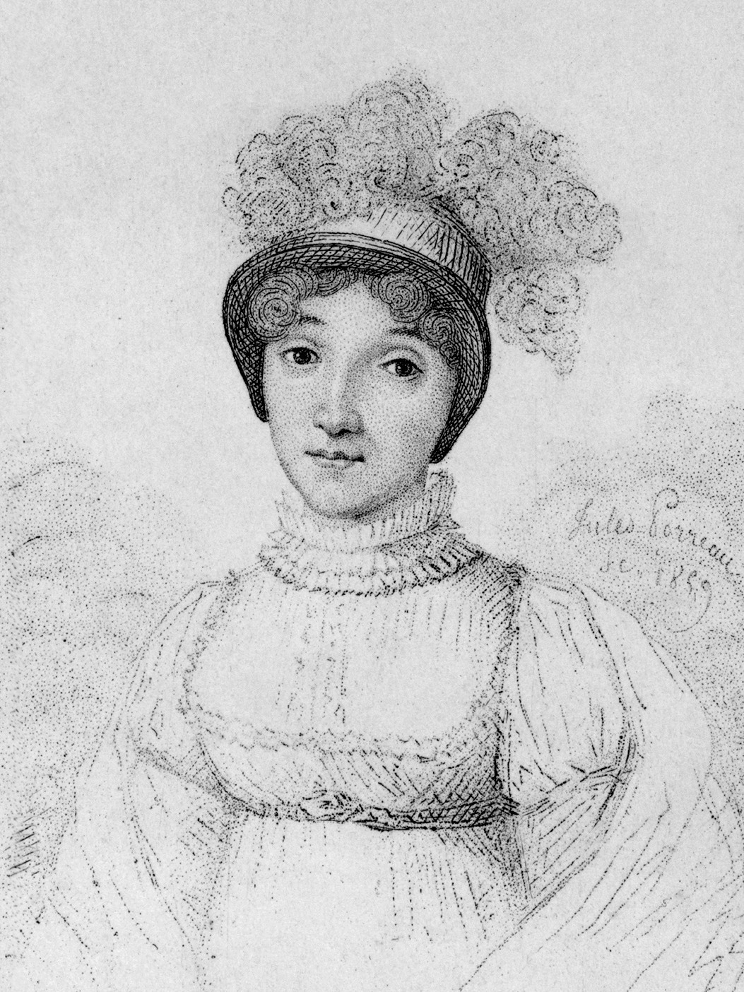 Sophie Blanchard early 19th century balloonist